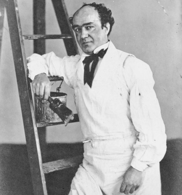 EDWARD OXFORD - DERANGED barman Edward Oxford fired two shots at pregnant Queen Victoria as she sat in a carriage with Prince Albert outside Buckingham Palace in 1840. Both bullets missed - and when police grabbed him all he would say was: It was me that did it. Doctors testified he was an imbecile at his trial for treason and he was sent to Bedlam, where he was a model patient, learning to speak several languages, before moving to Broadmoor in 1864. He was discharged in 1867, deported to Australia and became a pillar of society.